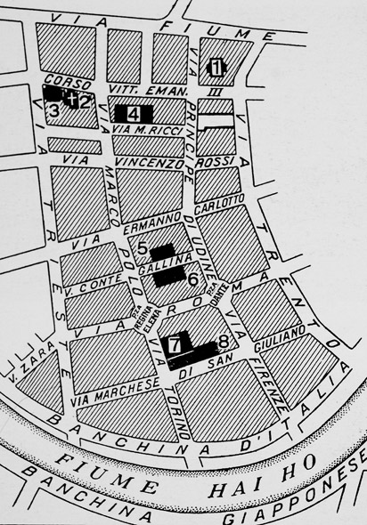 Map of the Italian concession in Tientsin. The concession was only 3 blocks wide. This concession was the only colonial-like territory Italy ever possessed in Asia.